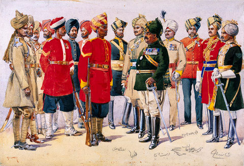 The Imperial Service Troops scheme was created in 1888 from amongst the armies of the independent Indian States in British India. Soldiers from the participating princely states were trained under British supervision and were then used both on the North West Frontier and in places as far apart as China, during the Boxer Rebellion, and Somaliland. By 1900 the force numbered around 19,000 men. This is the original artwork for an illustration in Major G F MacMunn's 'Armies of India', published in 1911.